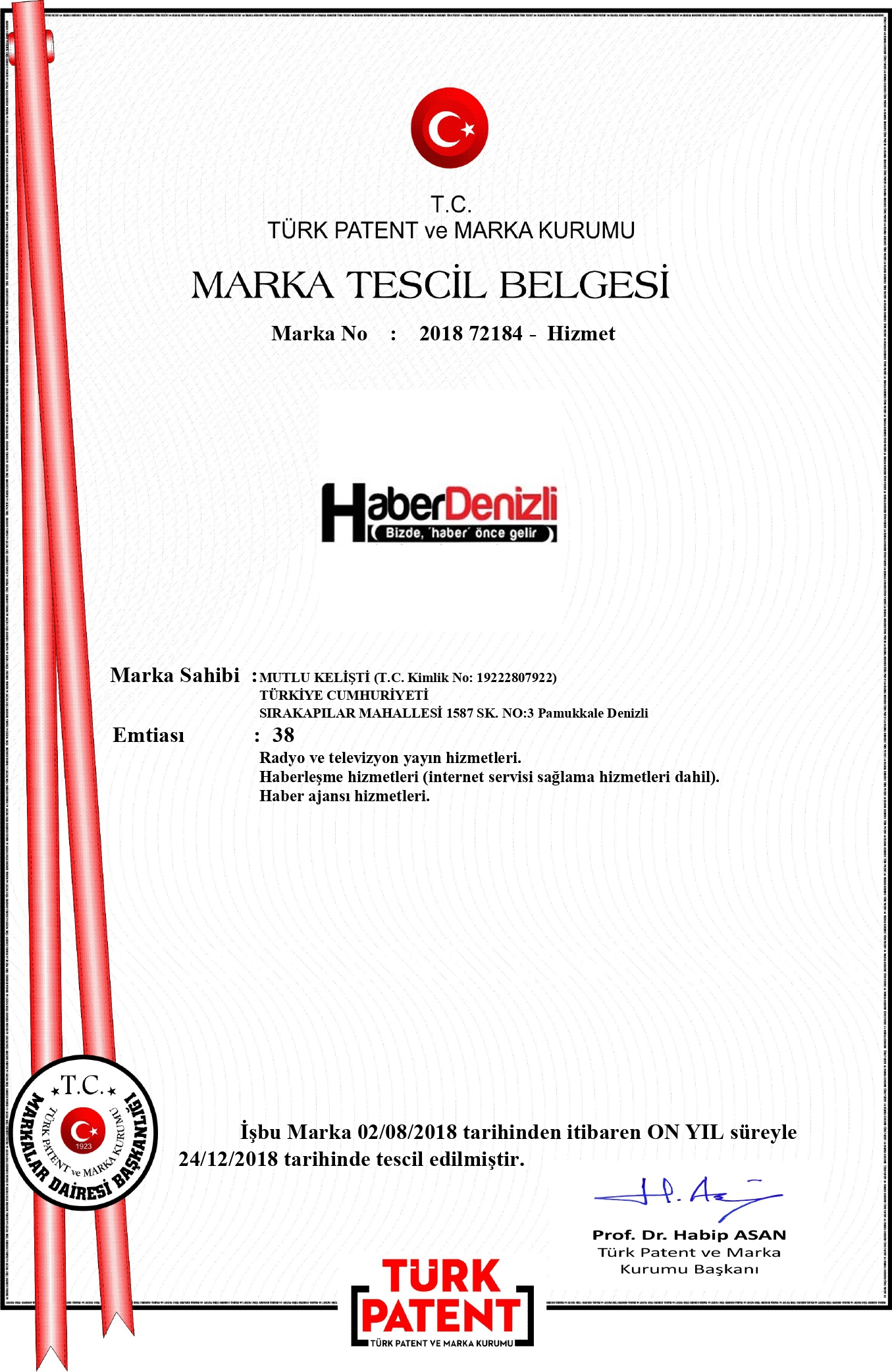 Certificate of Denizli News .com